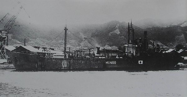 HIJMS Minoo